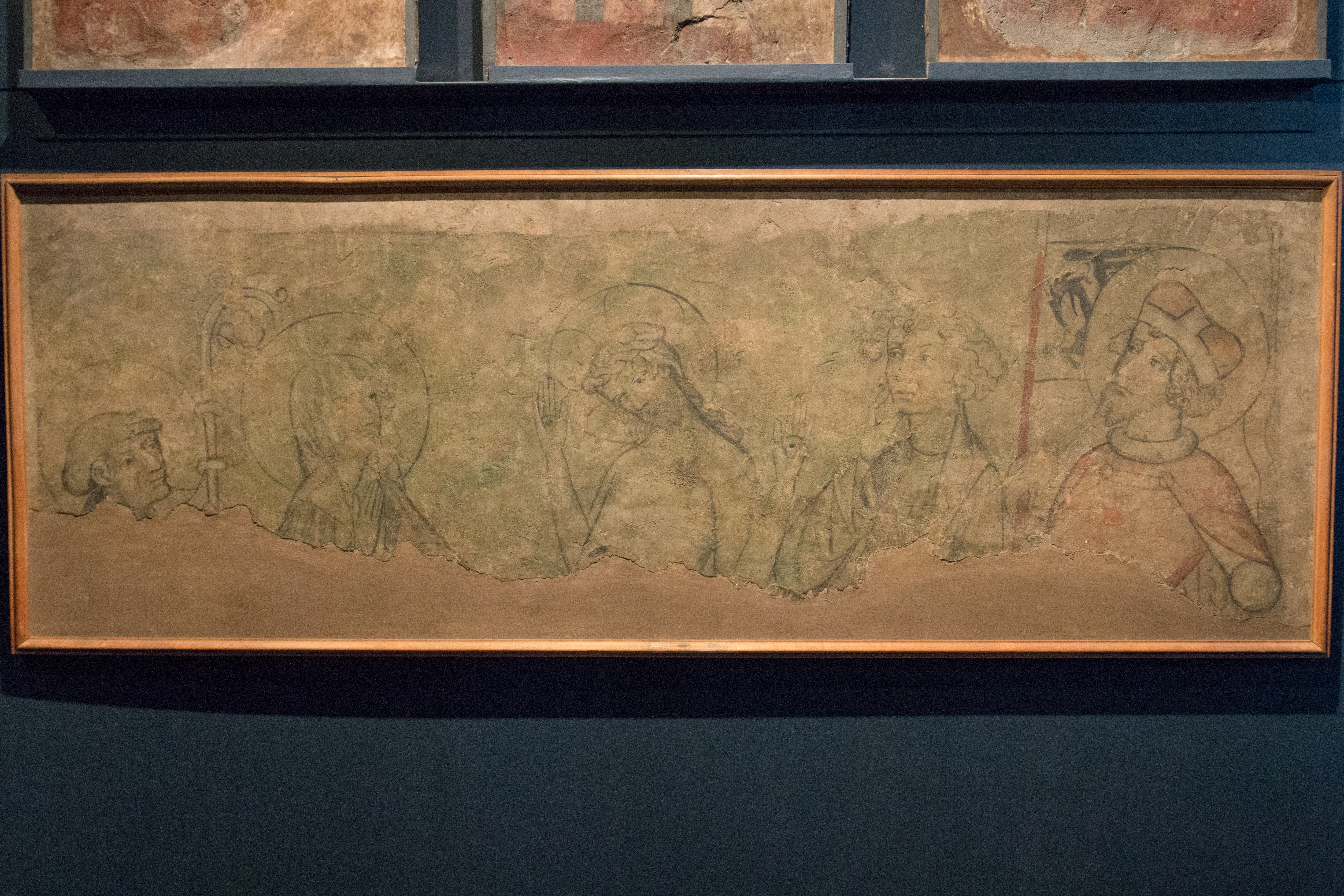 Christ the Martyr, Our Lady, St John the Evangelist, St Procopius and St Wenceslas. (Prague, Old Town, Michalská Street 11.) Frescoes from house no. 440/I. Painting on plaster, c. 1420. The City of Prague Museum.